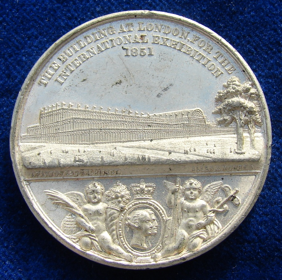 White metal, d.= 39 mm. Victoria 1837 - 1901 and Albert, Franz August Karl Emanuel, 1819 Coburg, Germany - 1861 Windsor Catle and Sir Joseph Paxton, Architect, 1803 Milton Bryan, Bedfordshire - 1865 Rockhills, Sydenham, England. Crowned medallion of Victoria & Albert below the Expo building , 3 lines curved above: "THE BUILDING AT LONDON, FOR THE INTERNATIONAL EXHIBITION 1851" / 16 lines: "THE MATERIALS ARE IRON AND GLASS; IT IS IN SHAPE A PARALLELOGRAM, 1848 FT LONG BY 408 FT BROAD, AND 66 FT HIGH; IT IS CROSSED MIDWAY BY A TRANSEPT 108 FT HIGH; ON THE NORTH SIDE IS AN ADDITIONAL 936 FT IN LENGTH BY 48 FT IN BREADTH; TOTAL AREA OF SPACE 855,360 CUBIC FT ; OR NEARLY 21 ACRES; ESTIMATED VALUE £ 150,000." Ines Augustin, 30. Medallists: (Joseph John) Allen 1824 (circa) Birmingham - 1878 Birmingham & (Joseph) Moore (Snr), 1817 Birmingham - 1892 Birmingham. Condition: EXTREMELY FINE